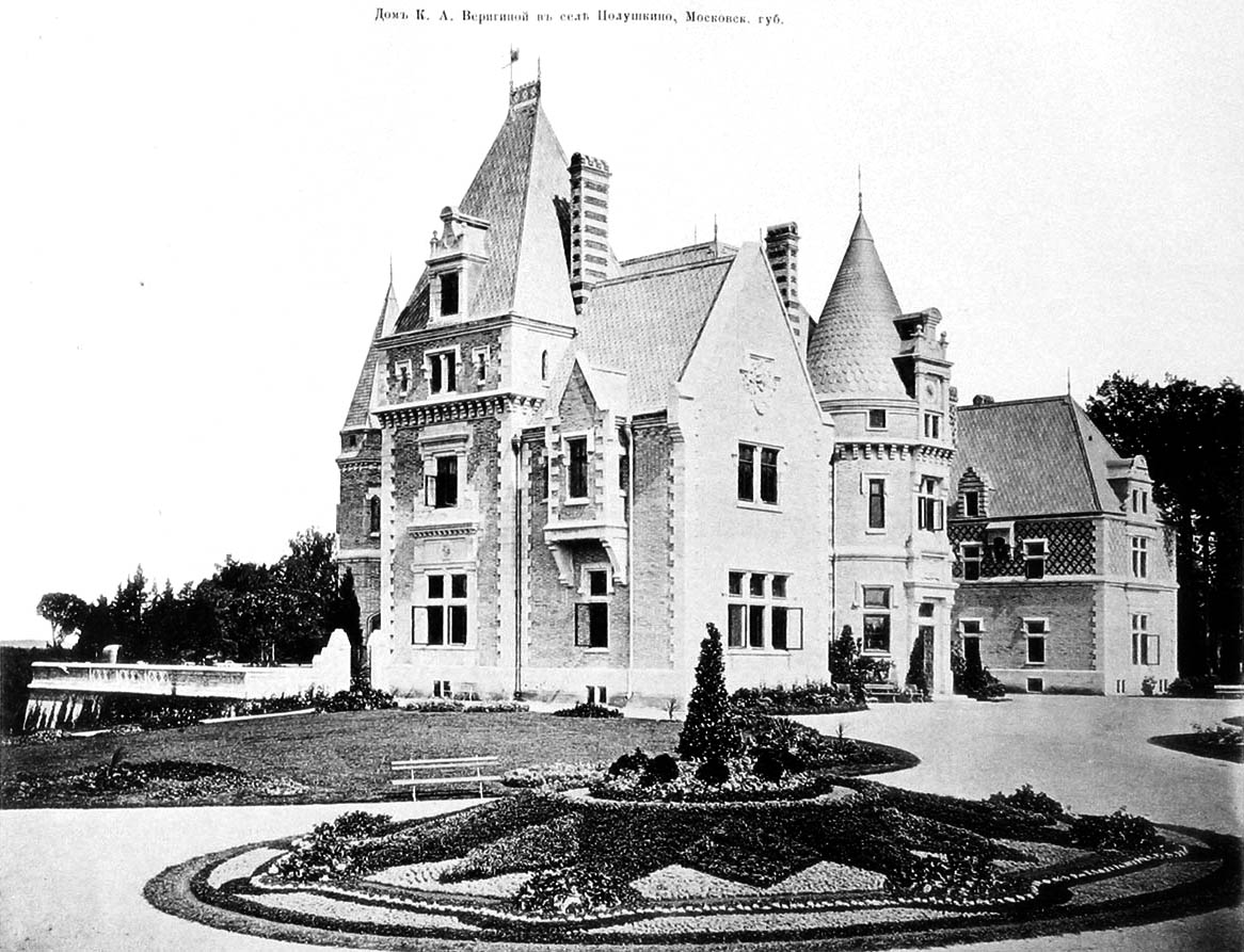 Verigina Estate in Podushkino, by Pyotr Boytsov